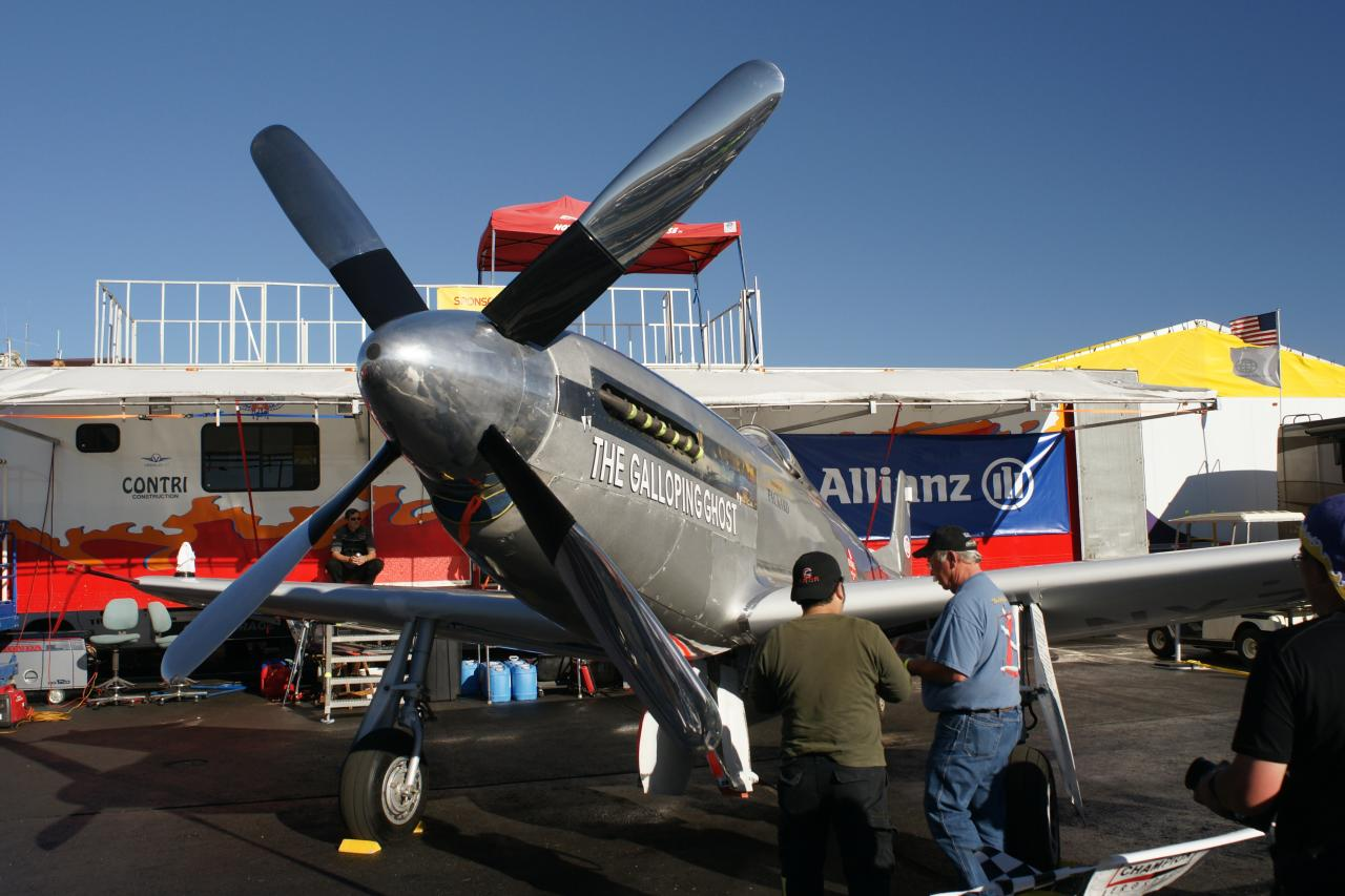 Galloping Ghost, a P-51D Mustang highly modified for air racing. Sadly crashed September 16, 2011 at the Reno Air Races, Killing the pilot and spectators on the ground.